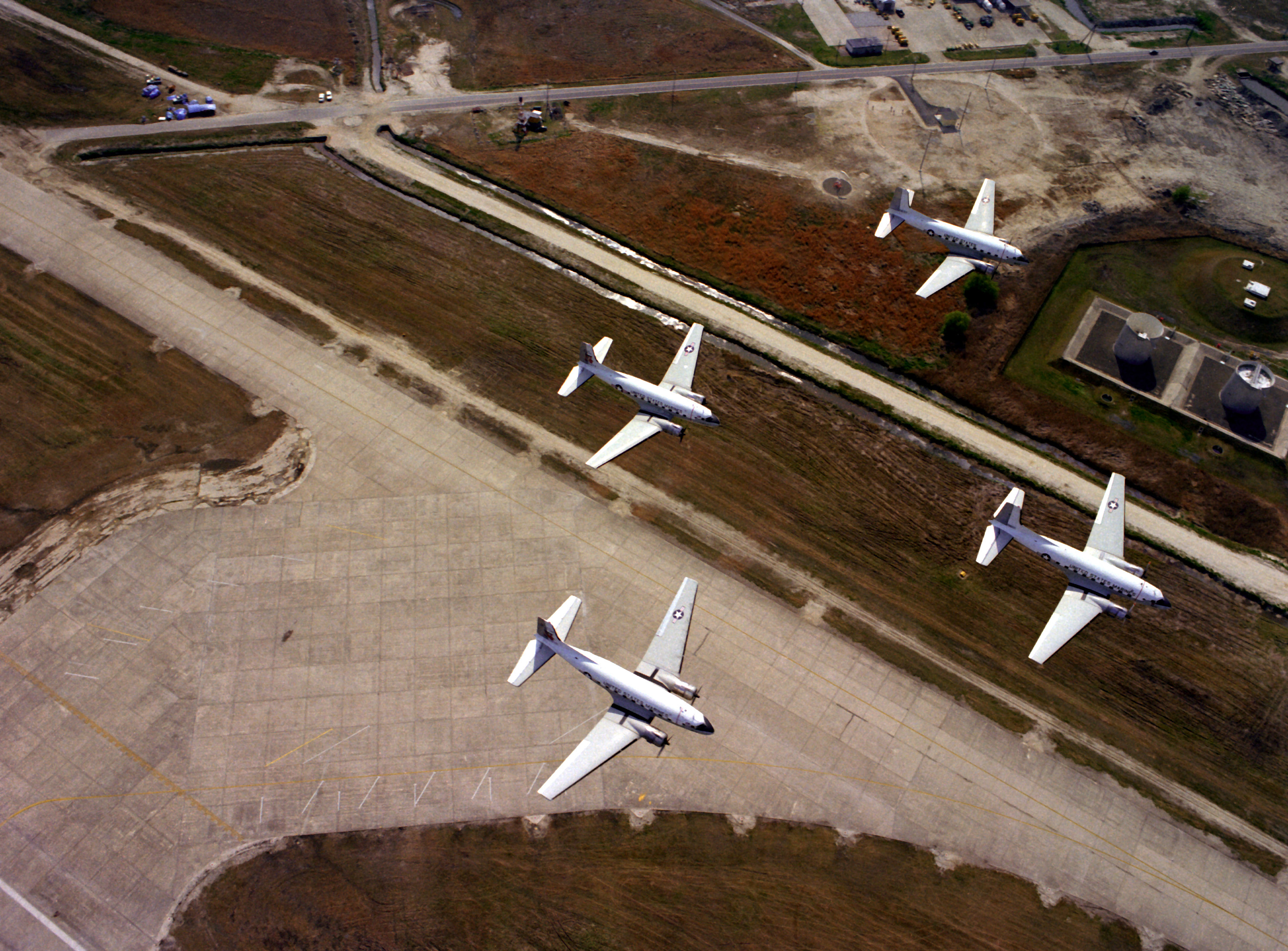 Four U.S. Marine Corps Douglas C-117D Skytrain aircraft fly over Marine Corps Air Station Iwakuni, Japan, on 15 June 1981. MCAS Iwakuni was the only Marine Corps air station that still operated the C-117.